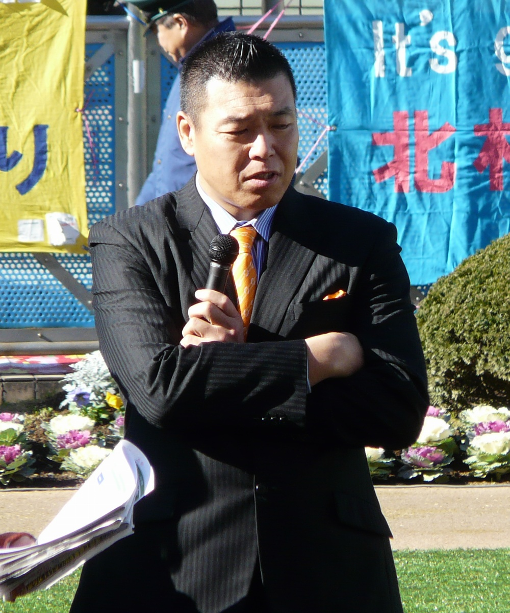 Naoya-Ogawa20111218